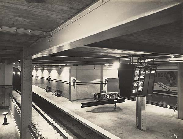 Town Hall railway station prior to opening.